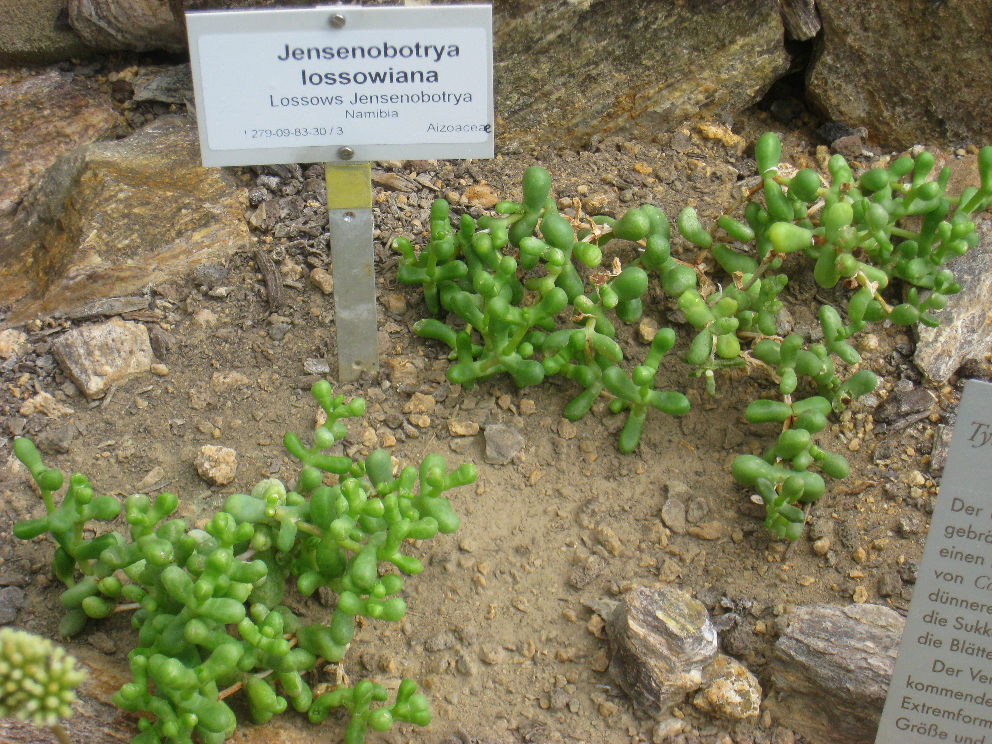 Jensenobotrya lossowiana specimen in the Botanischer Garten, Berlin-Dahlem (Berlin Botanical Garden), Berlin, Germany.